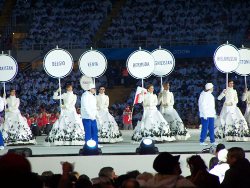 Athletes and the parade of nations take center stage. (ATR)